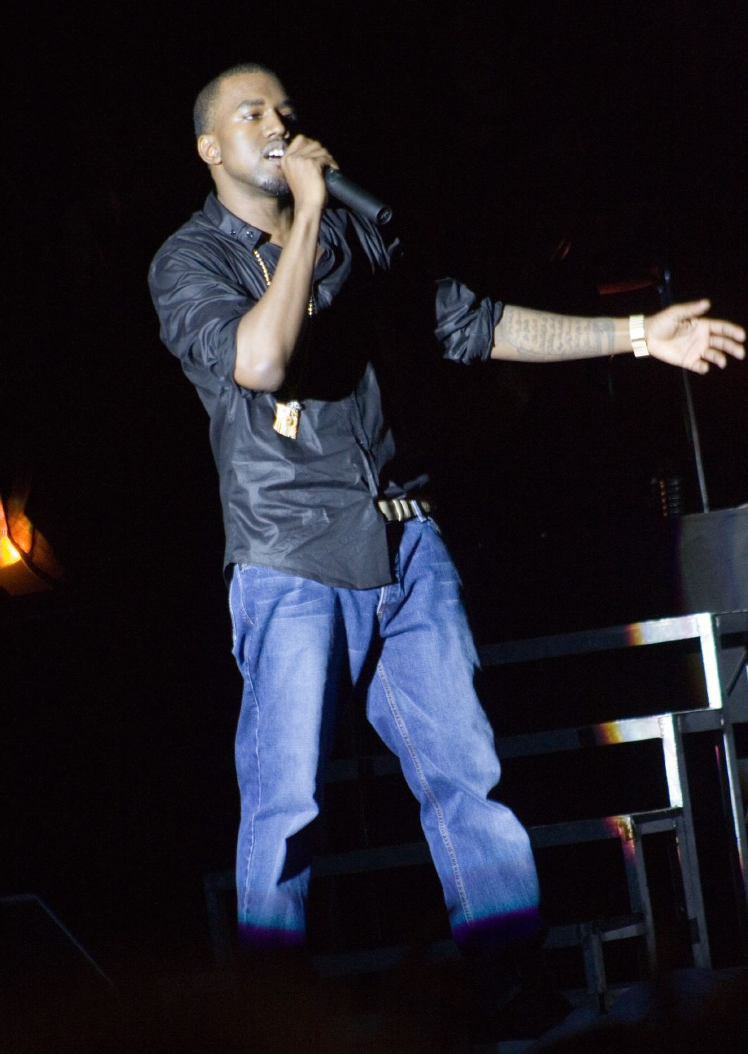 Kanye West performing at the Stockholm Jazz Festival on July 20, 2006 in Stockholm, Sweden.